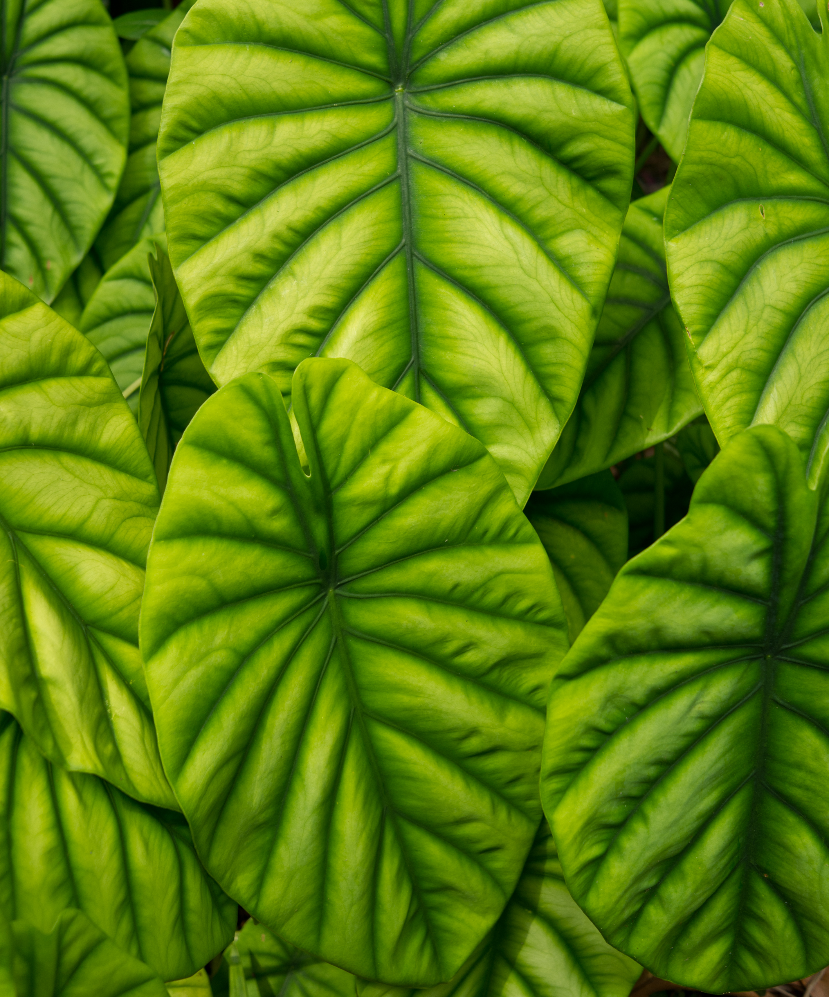 Alocasia cuprea at the Hawaii Tropical Botanical Garden, Big Island, Hawaii.